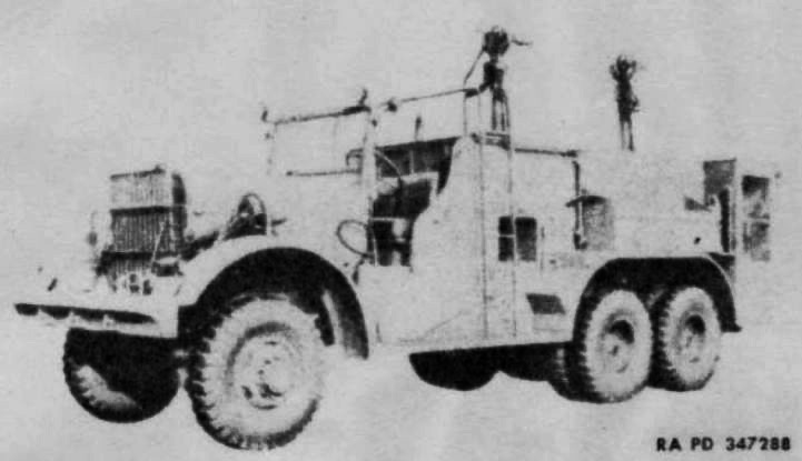 6 ton Fire crash high pressure foam fog truck